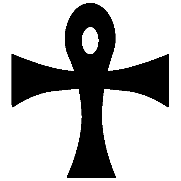 This image represents the mark of Magic Council.